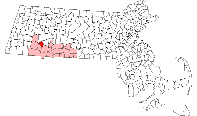 Map of Massachusetts towns with Montgomery highlighted